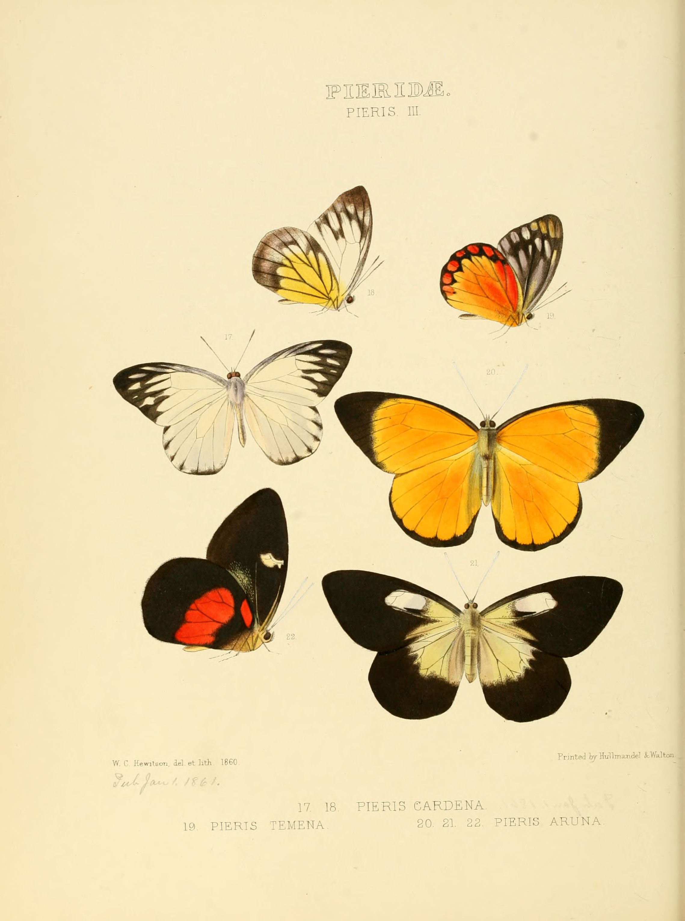 Plate: Pieris III Pieris cardena. Figs. 17, 18. Accepted as Appias cardena (Hewitson, 1861). Pieris temena. Fig. 19. Accepted as Cepora temena (Hewitson, 1861). Pieris aruna. Figs. 20, 21, 22. Accepted as Delias aruna (Boisduval, 1832).